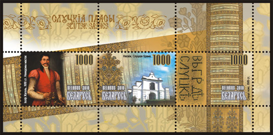 Stamp of Belarus